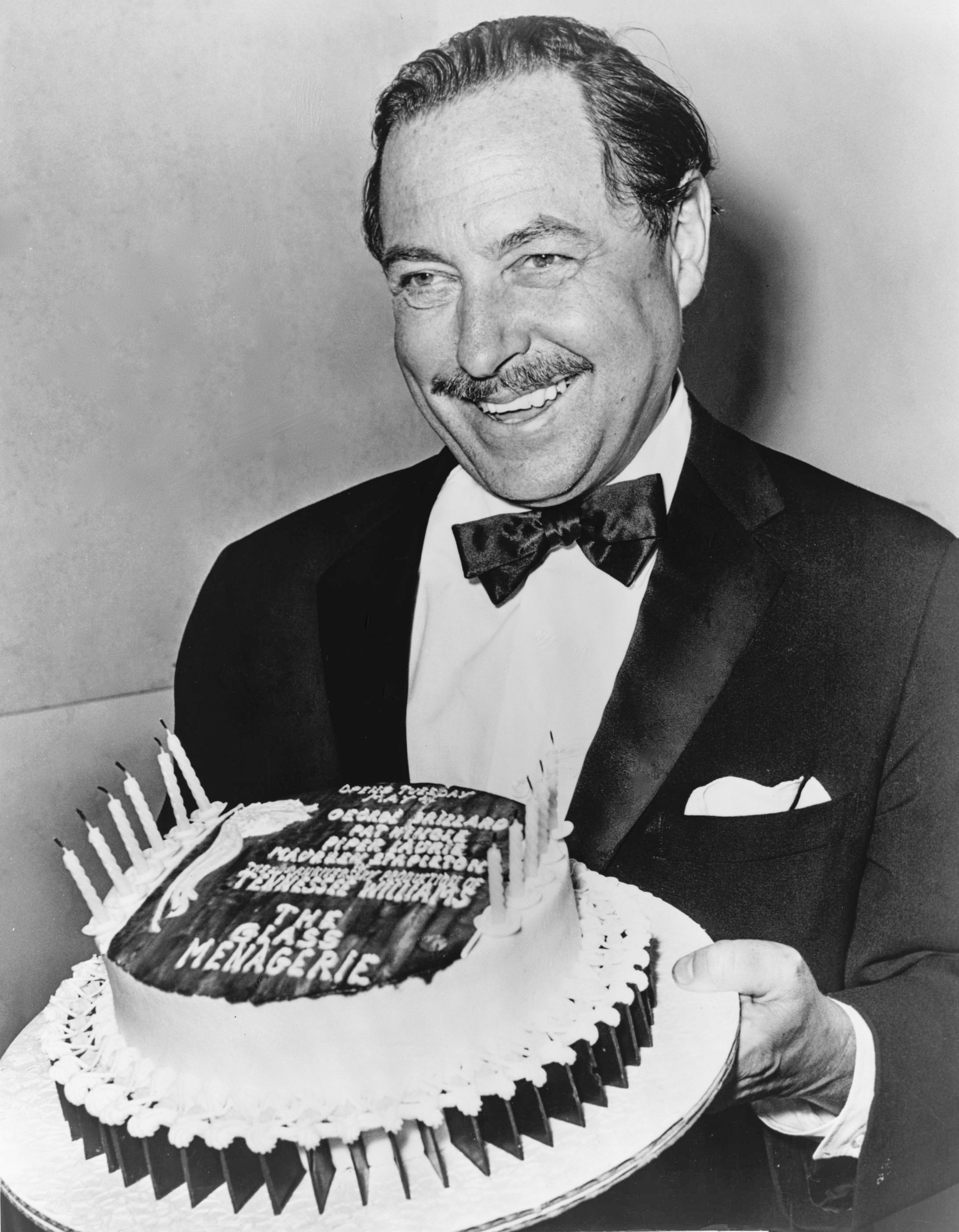 Tennessee Williams with "birthday" cake for the 20th anniversary of "The Glass Menagerie" opening